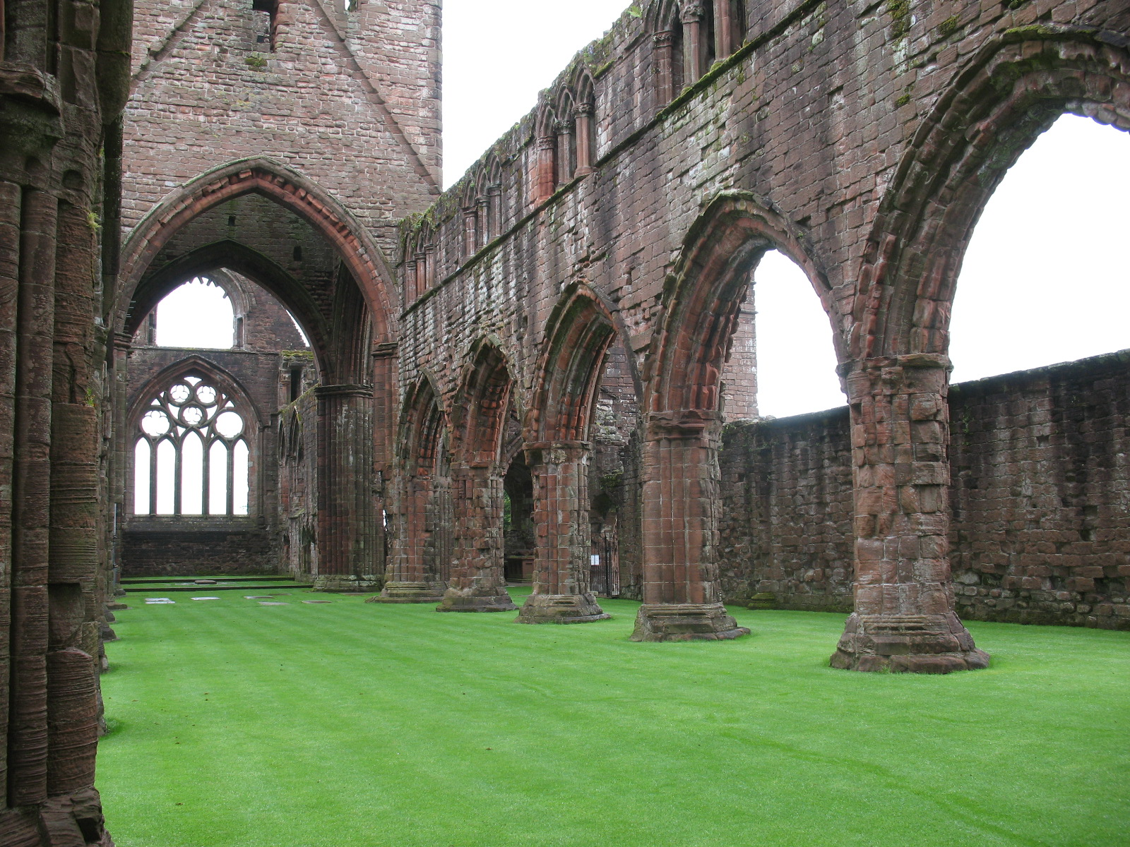 The picture shows the Main aisle of Sweetheart Abbey in Dumfries and Galloways in August 2007.